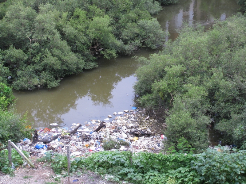 Illegal dumping of waste is damaging the mangroves and is not a pleasing site.